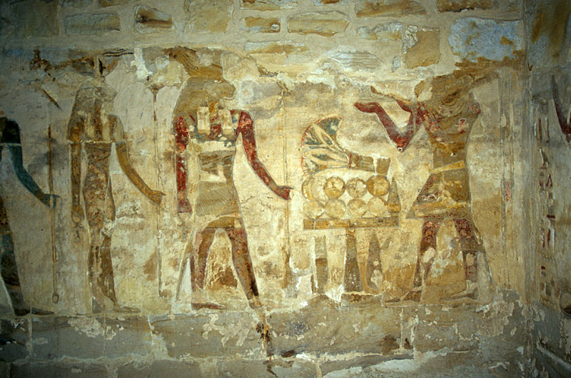 King Amasis offers wine to gods, first chapel, 'Ain el-Muftilla, el-Bahriya depression, Libyan desert, Egypt